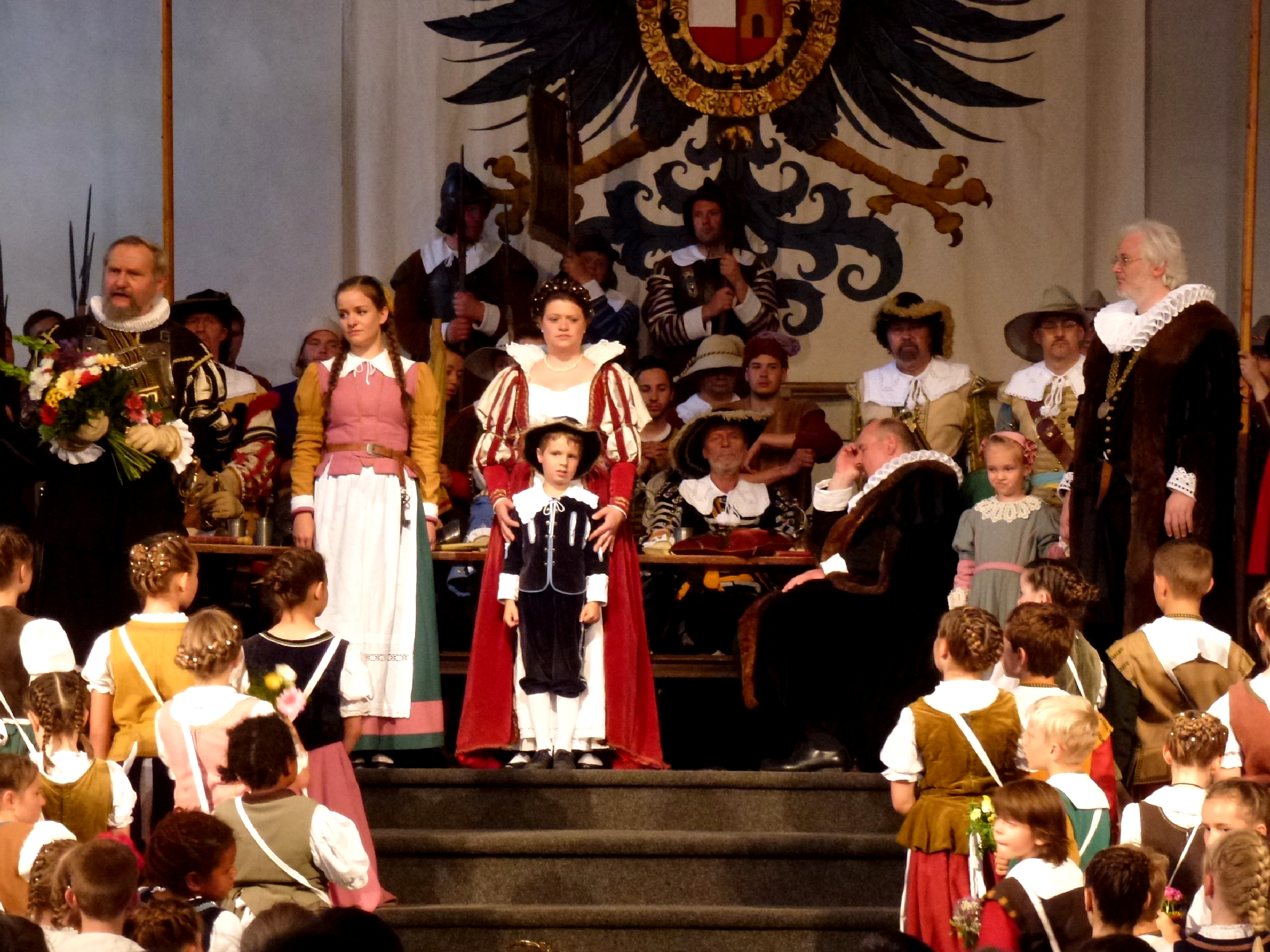 Theater Historisches Festspiel Rathaus Rothenburg Germany